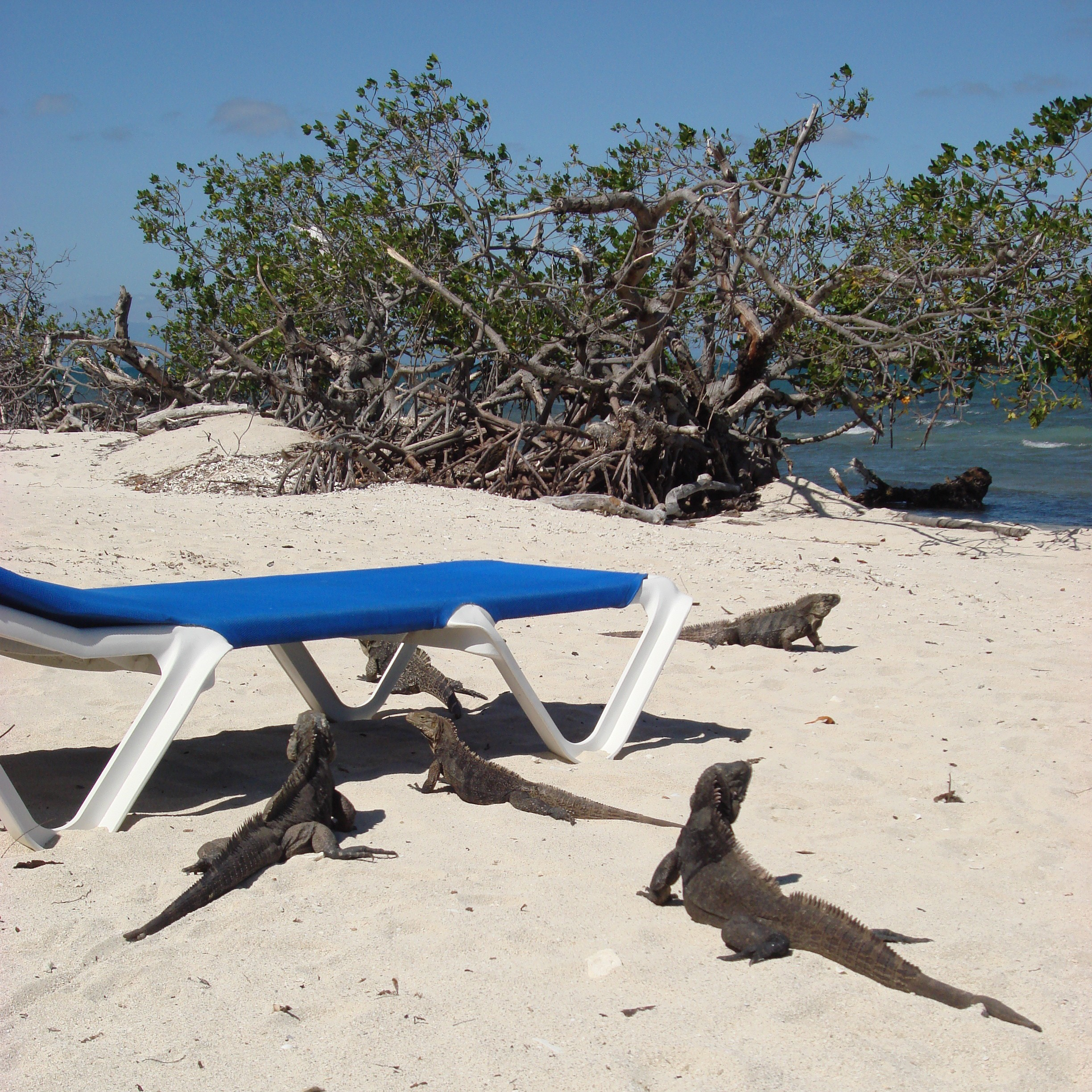 Cyclura nubila on beach in Cuba.